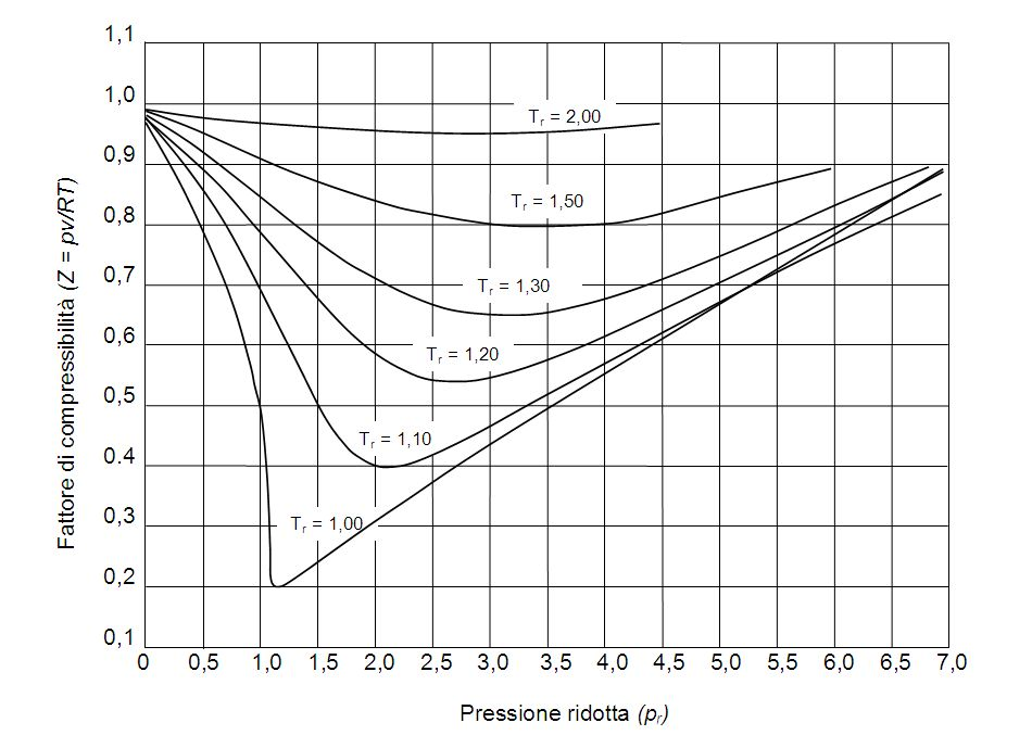 Generalized diagram of compressipility factor (Z=pv/RT).